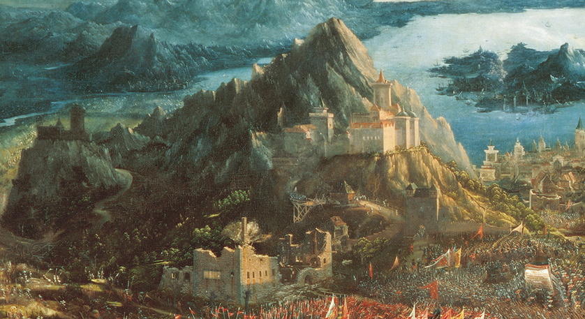 Battle of Alexander the Great against Persian King Darius